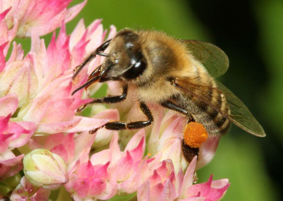 Description: Carniolan honeybee (Apis mellifera carnica) on Hylotelephium 'Herbstfreude' with pollen basket